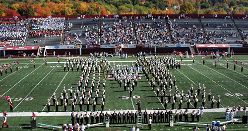 I took this picture at the football game.